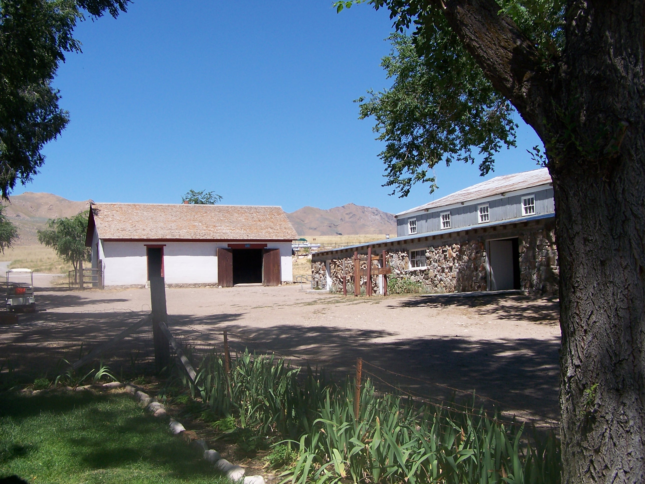 Ranch with huge mountains behind it.